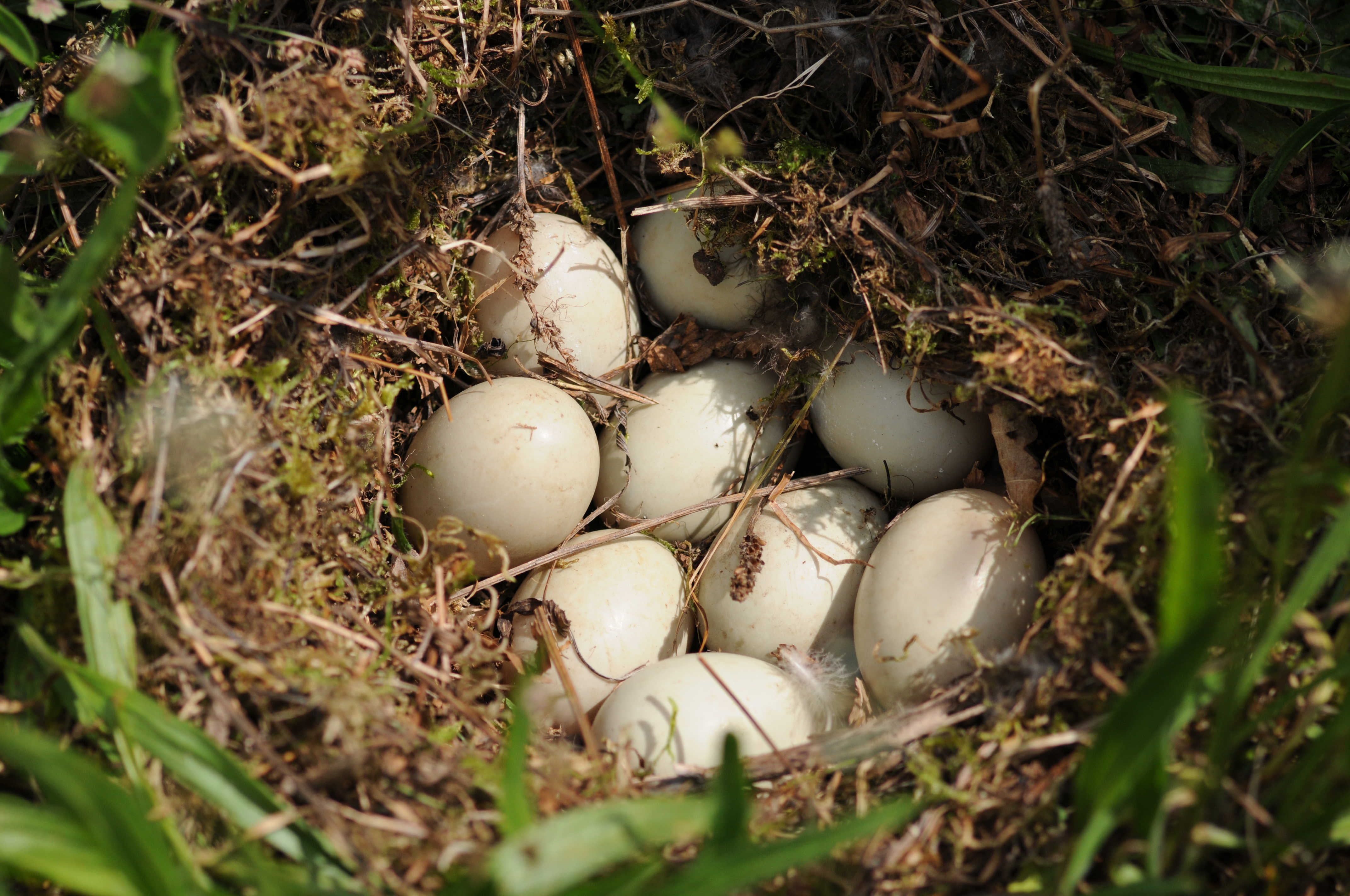 This photograph was taken with a Nikon D300 Nid de canard.